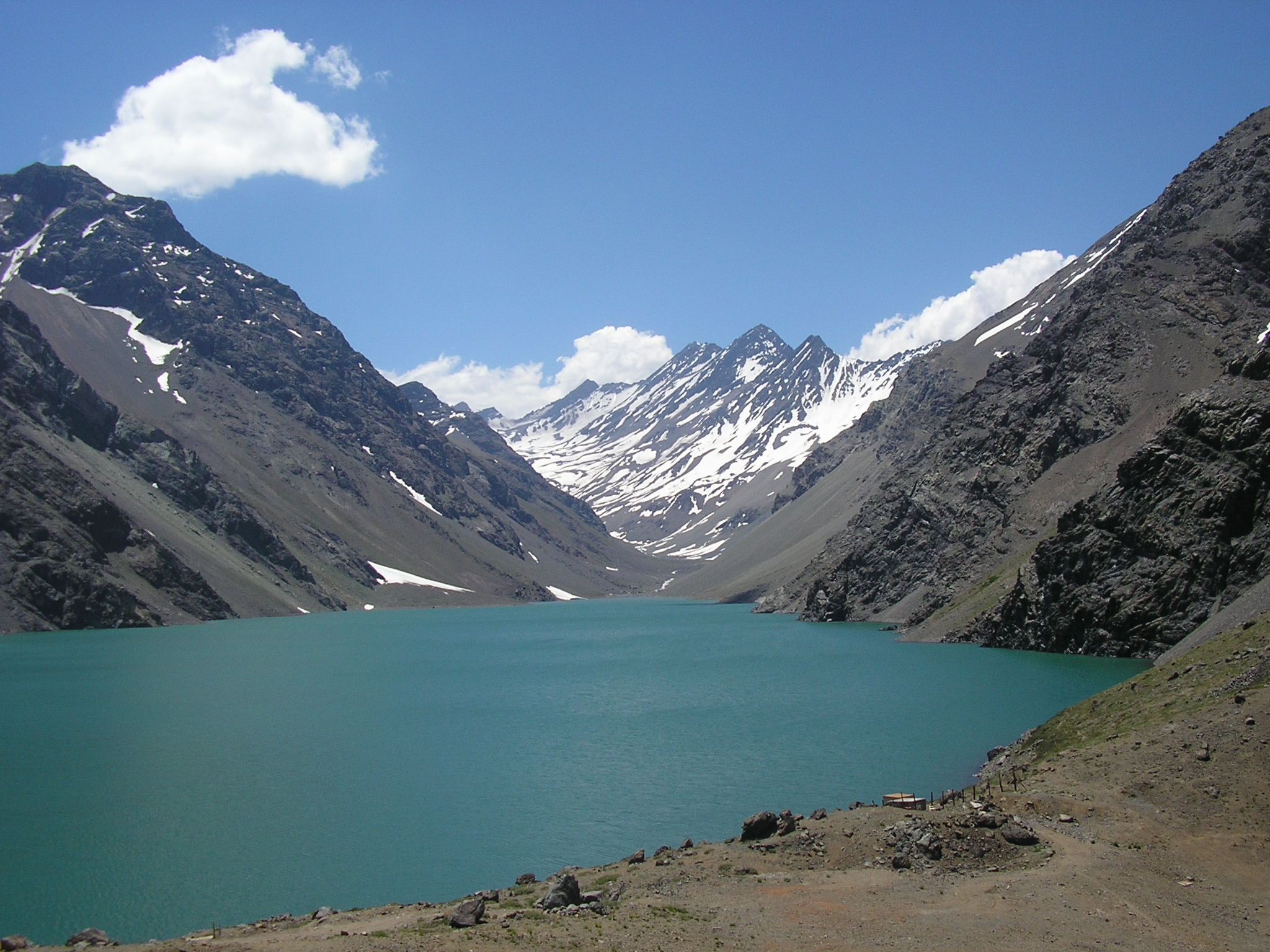 Laguna del Inca - Portillo, Chile.